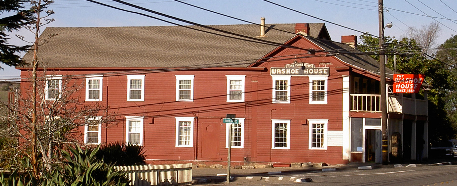 Extracted from a photo of Washoe House taken from the south by Stephen Gold on November 29, 2007. Cropped using Photoshop Elements.